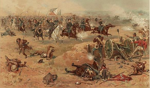 The print shows Union General Philip H. Sheridan’s final charge at Winchester during the American Civil War.